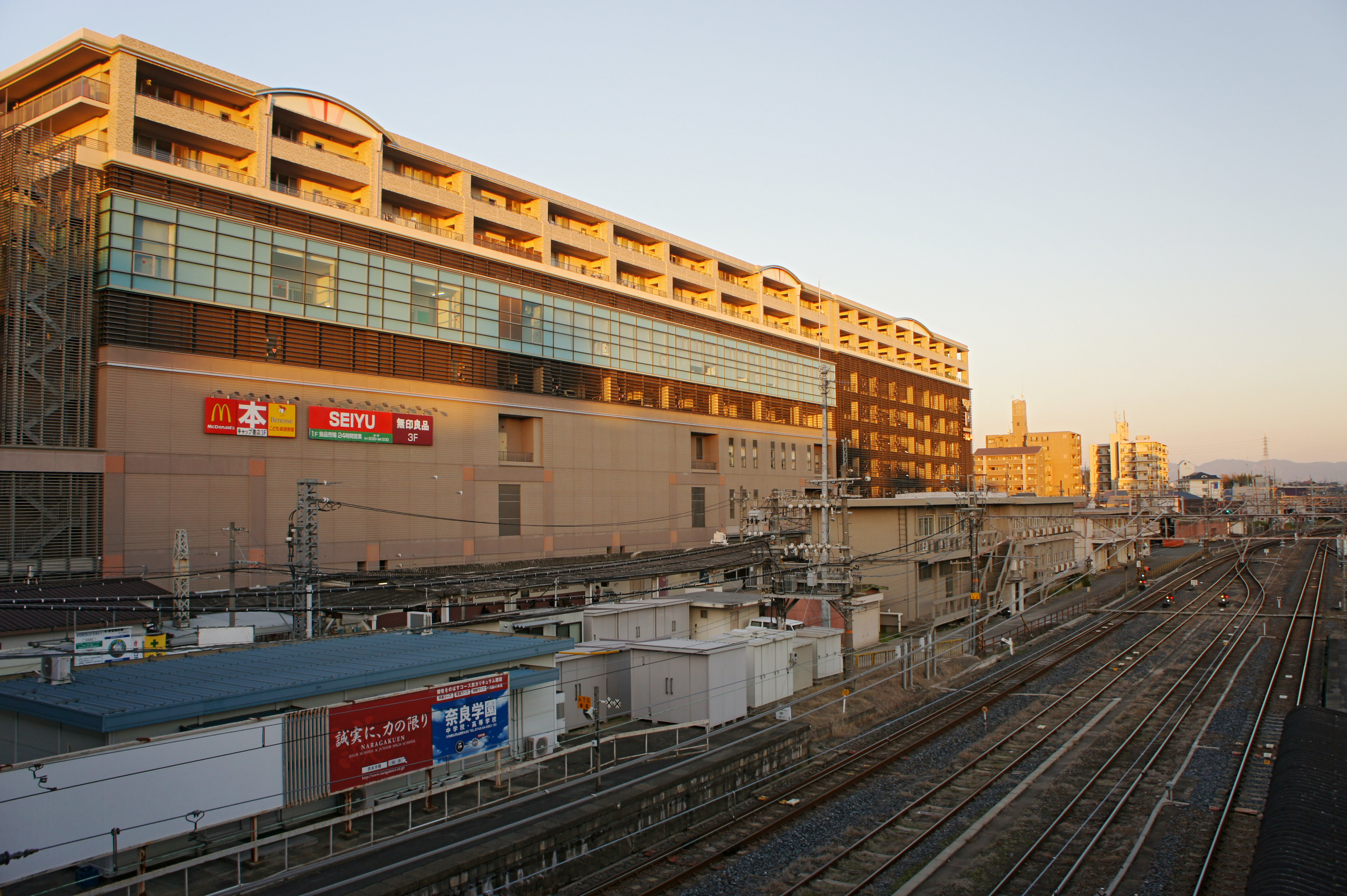 Ōji Station in Ōji, Nara prefecture, Japan.